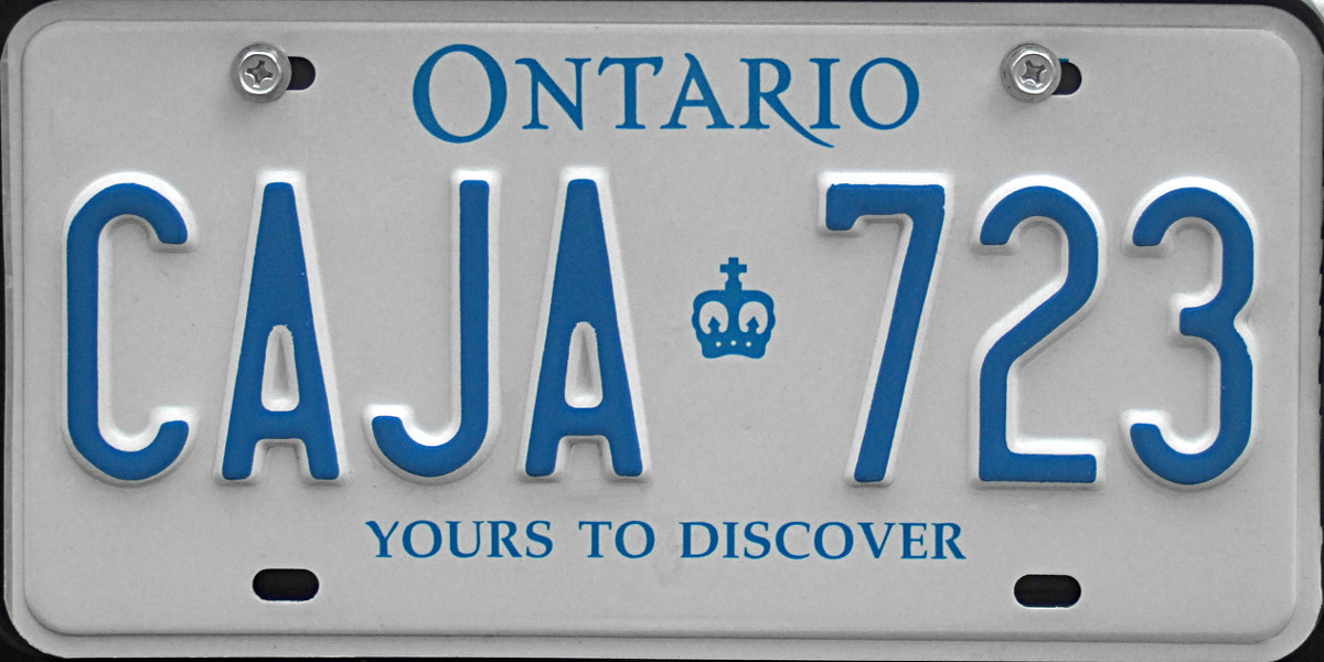 2016 Ontario license plate, private passenger car